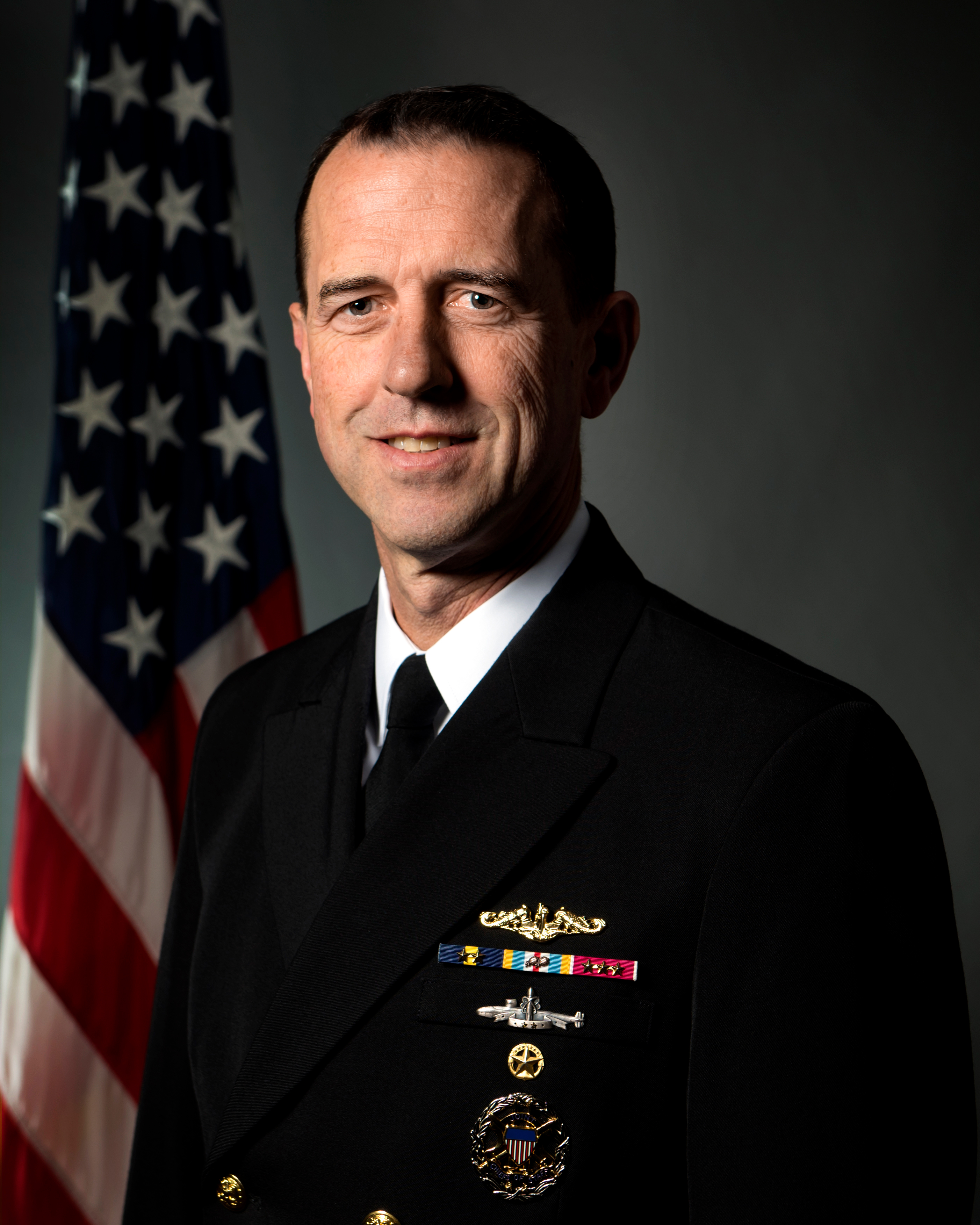 ADM John Richardson, USN